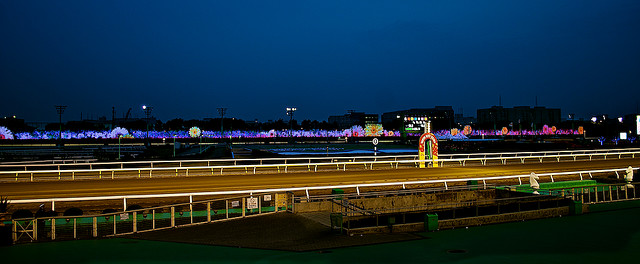 Ohi Racecourse